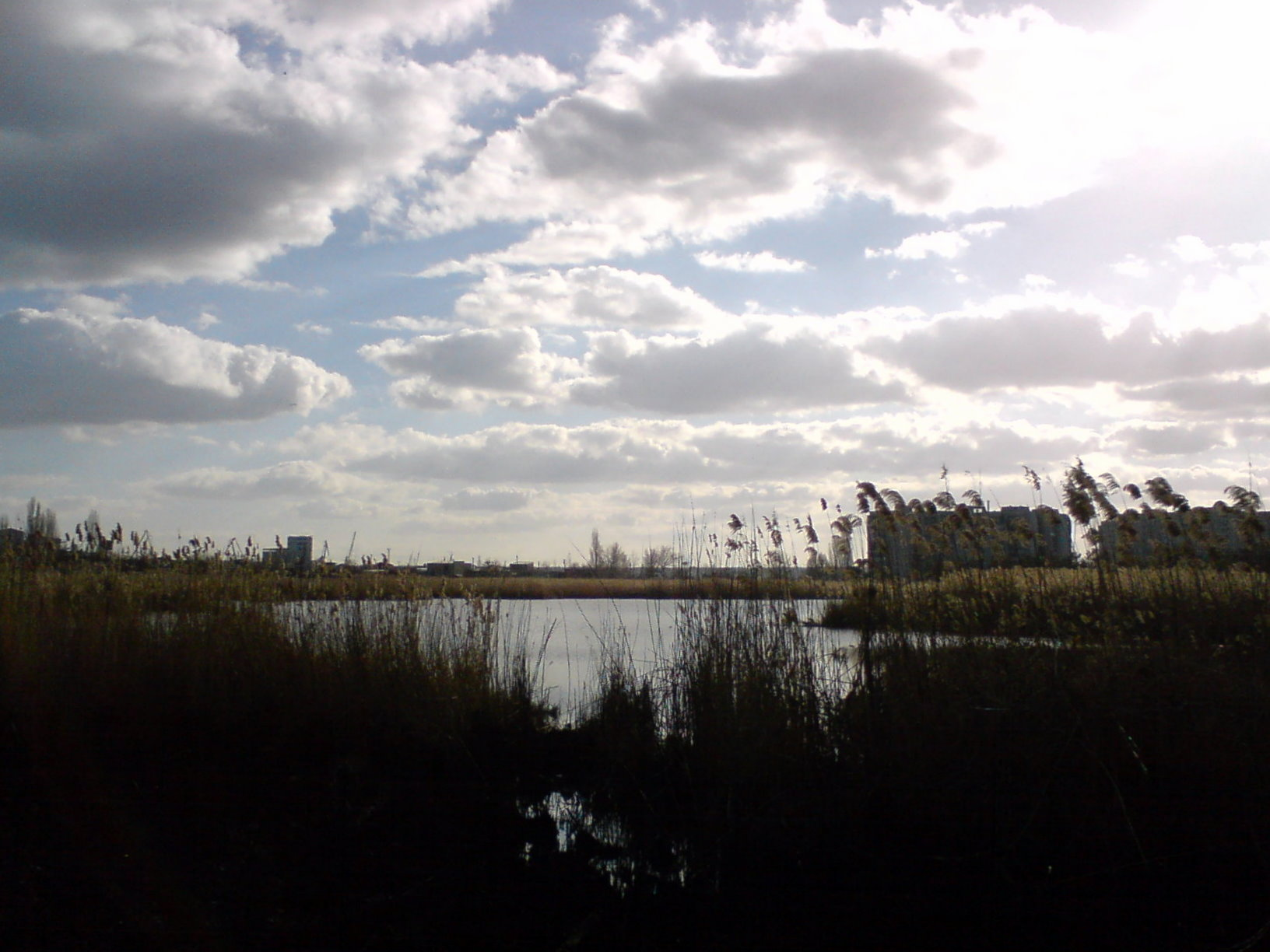 A view of the lake in Leski Park, Mykolaiv.